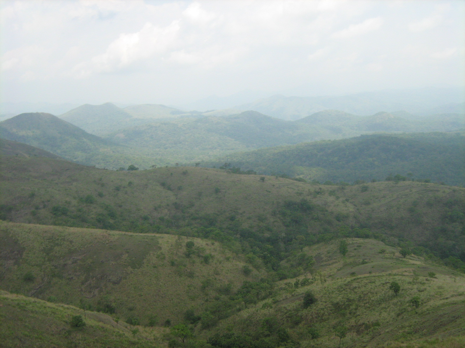 A scene from Mangaladevi, in Periyar Tiger Resere, Thekkady